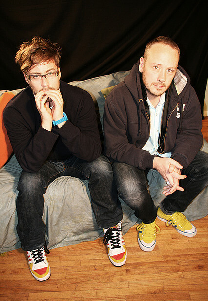 Basement Jaxx